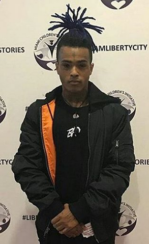 XXXTentacion outside Charles R. Drew High School for Miami Children's Initiative